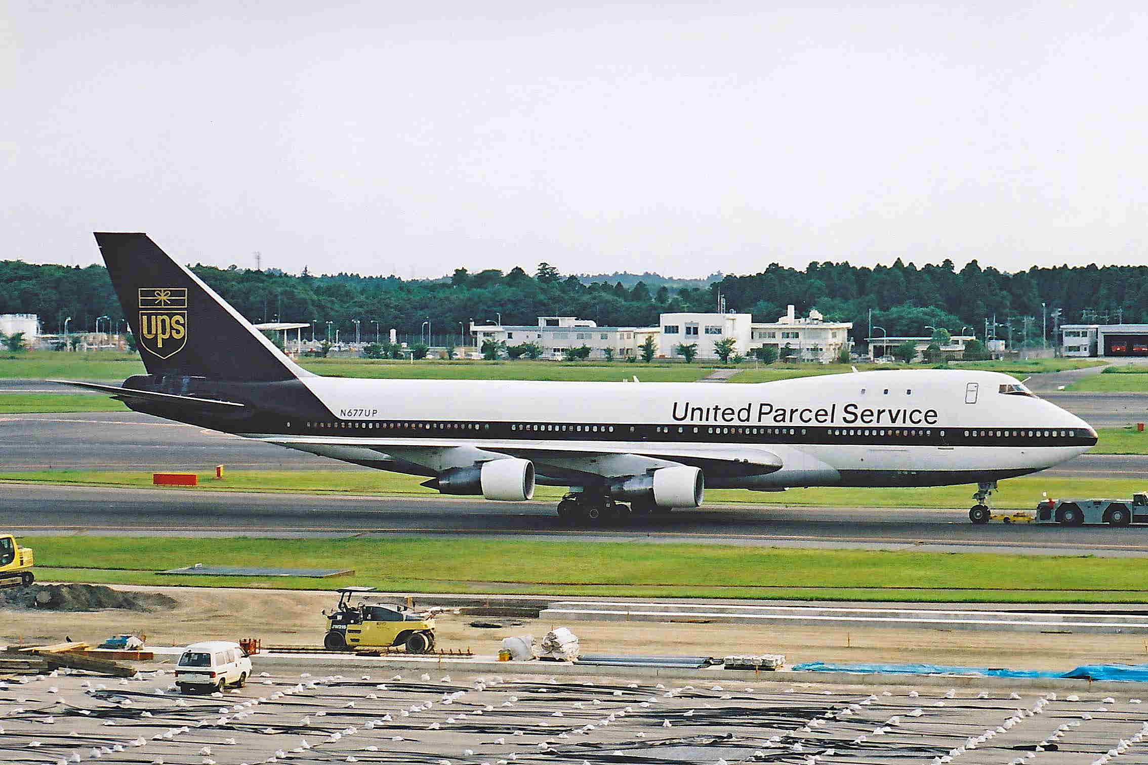 Ex. N9676, OD-AGC, N901PA, N820FT, N629F.